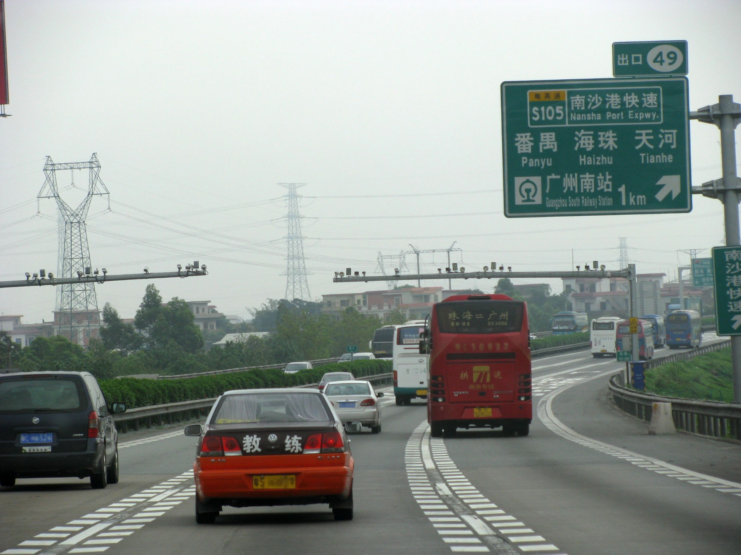 The G4W Guangzhou–Macau Expressway in China.